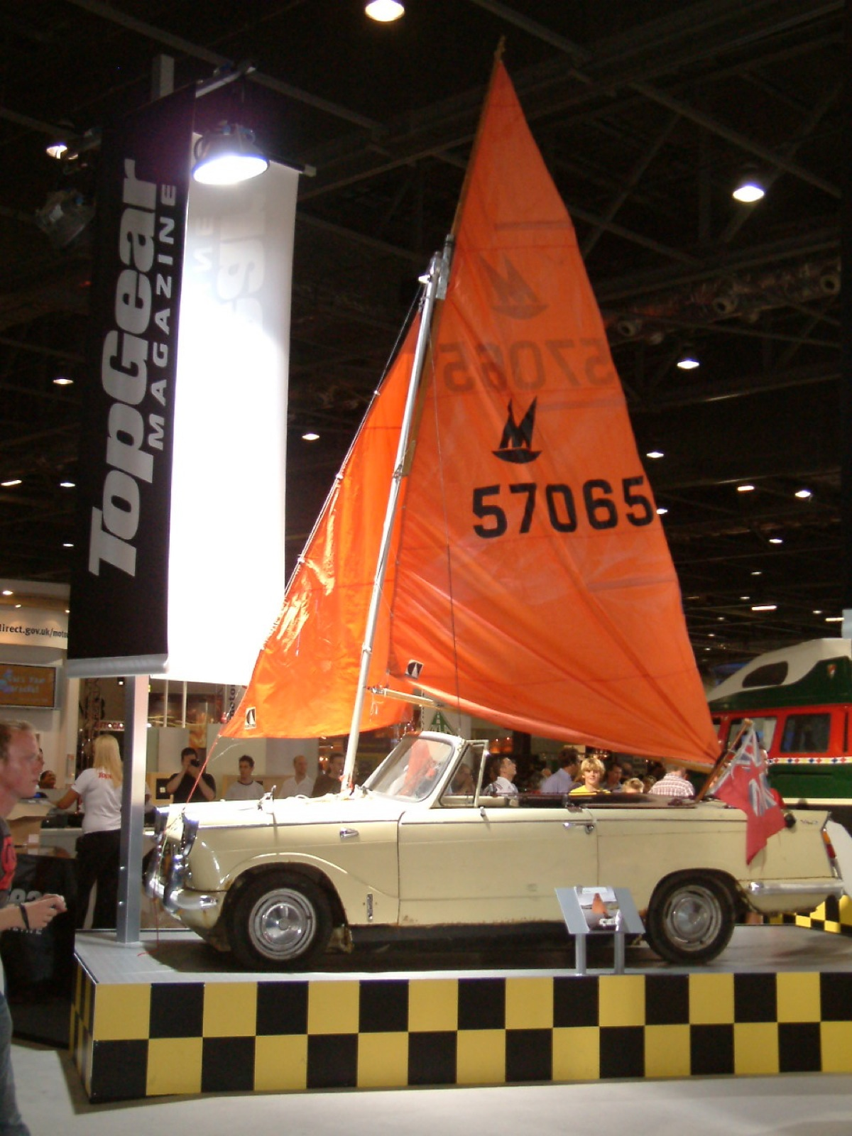 Top gear presenter James May's amphibious Triumph Herald.